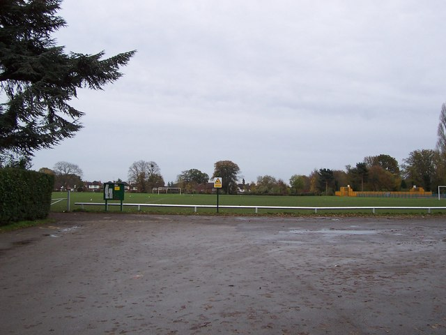 View across Sol Joel Park, near to Woodley, Wokingham, Great Britain.